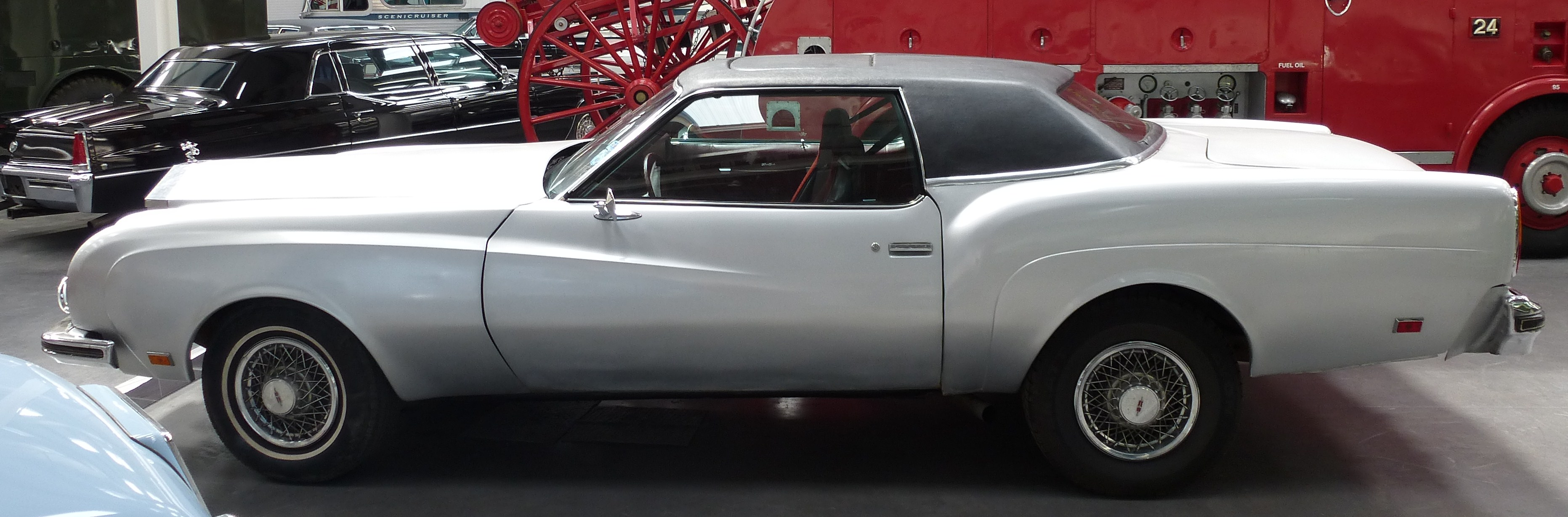 Custom Cloud von 1975